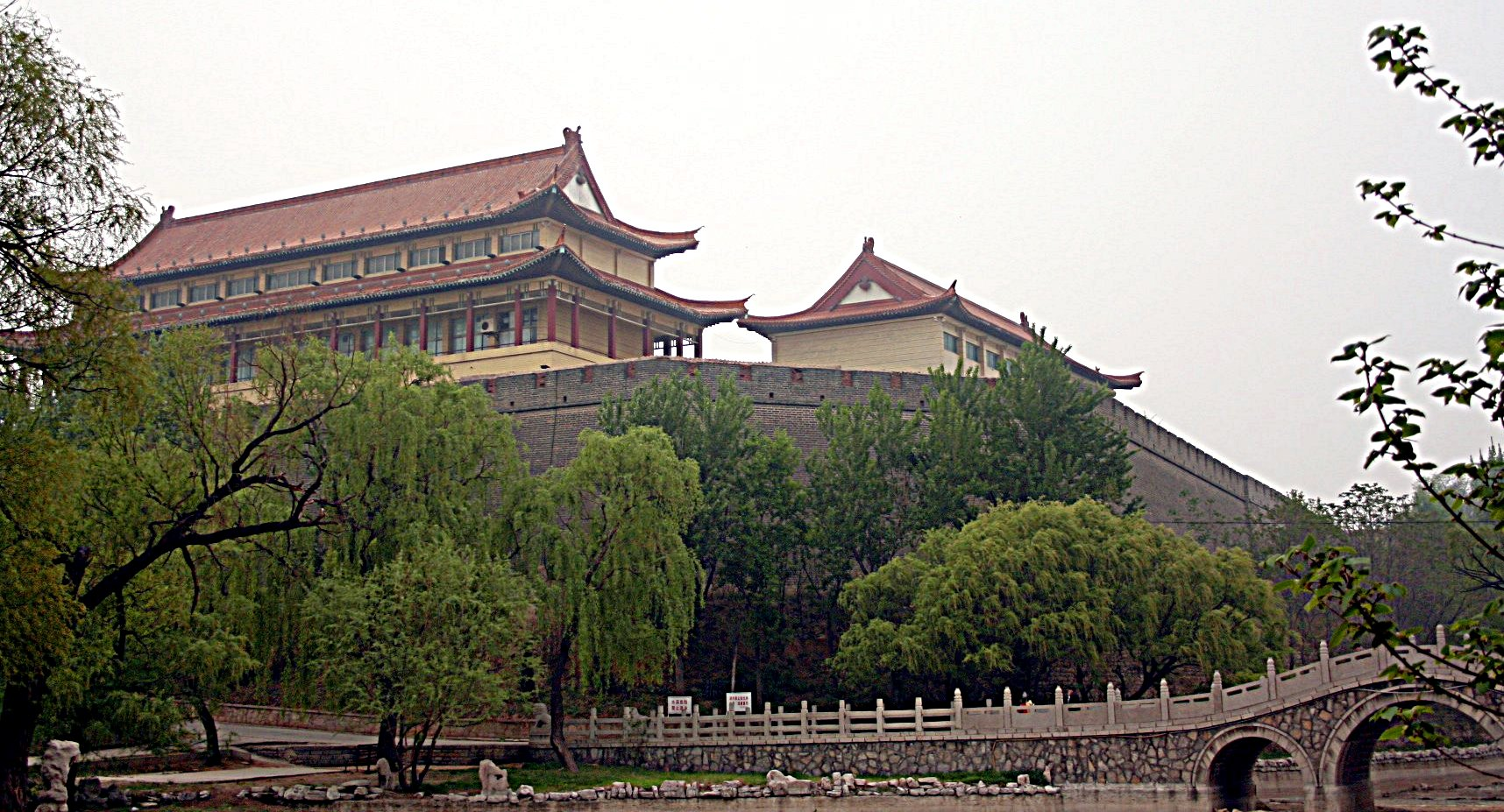 The Qingzhou Museum in Qingzhou, Shandong Province, China. Seen from the neighboring park.